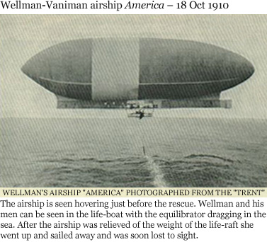 America (airship)